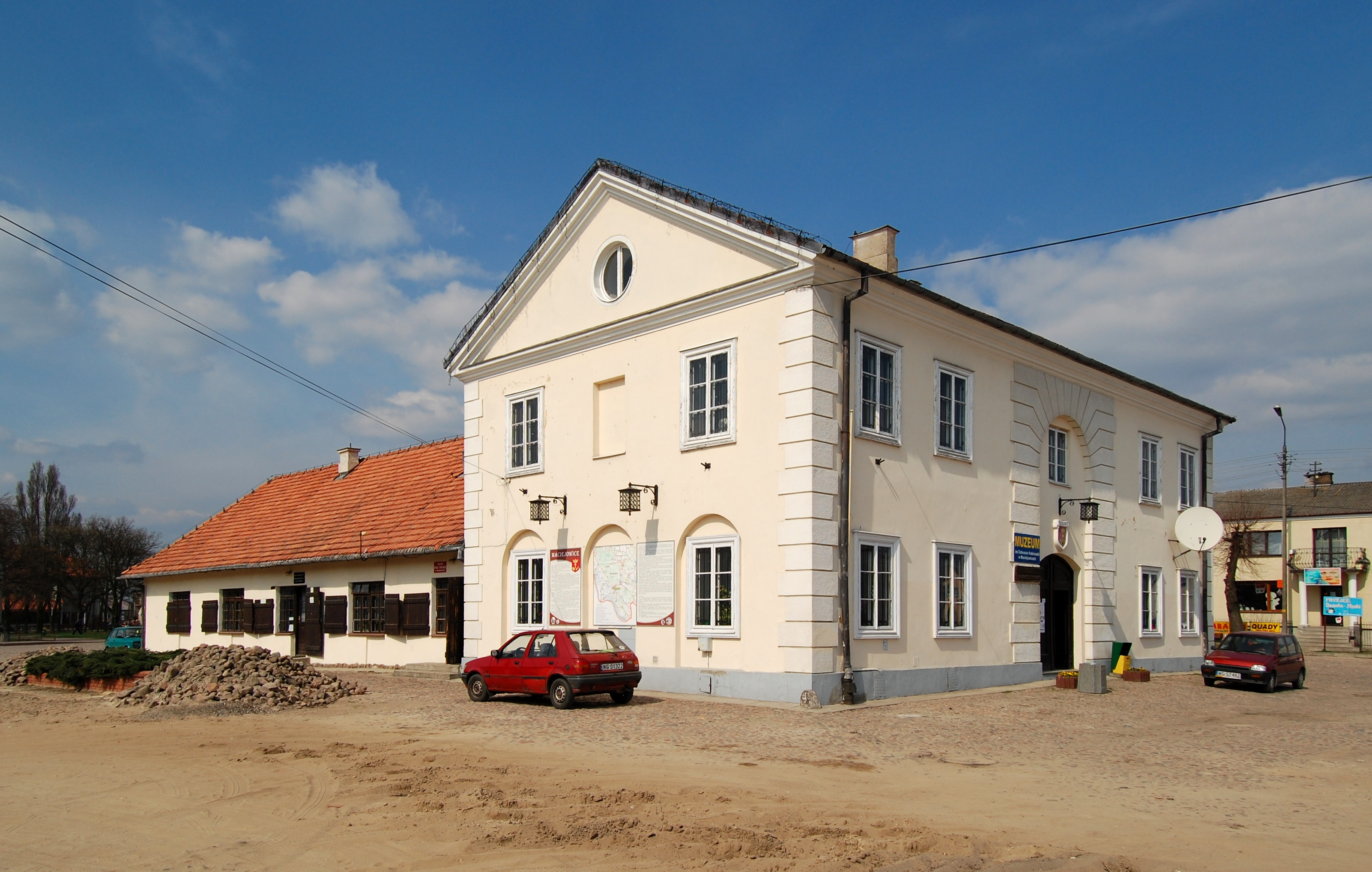 Town hall in Maciejowice, Masovian Voivodeship, Poland.